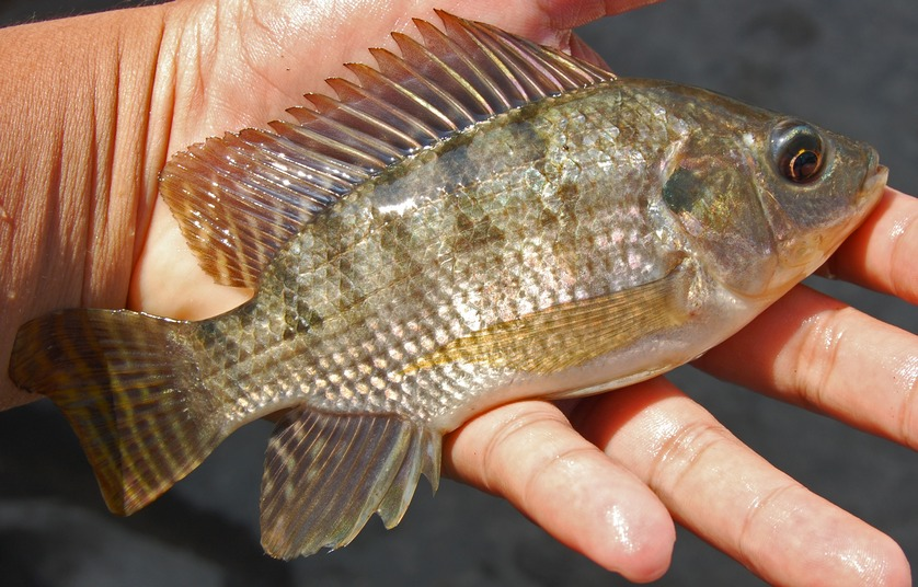 Oreochromis niloticus female, from Lumajang, East Java, Indonesia